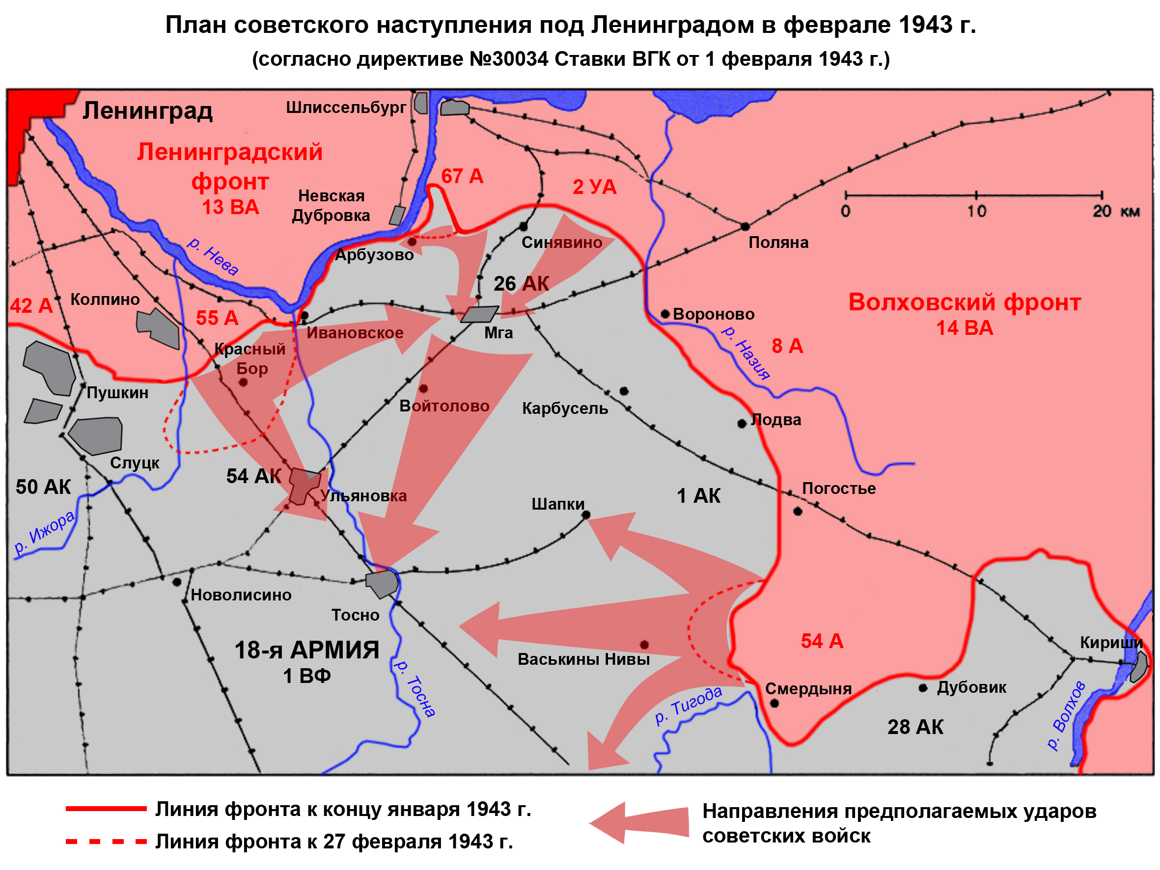 The plan of the Soviet offensive at Leningrad in February 1943.